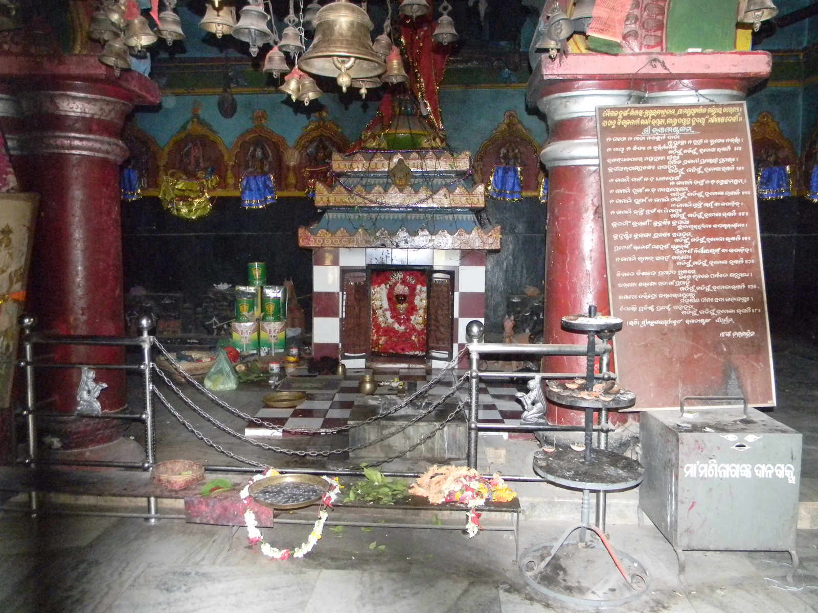 ଓଡ଼ିଆ: Maninag Devi, Ranpur, Nayagarh This media file is uploaded with Odia loves Wikipedia English |italiano |македонски |മലയാളം |ଓଡ଼ିଆ +/−